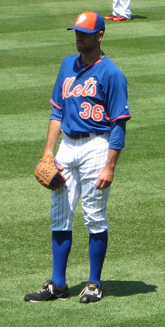 Sean Gilmartin of the New York Mets on June 22, 2016.